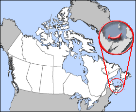 Map of Canada with a "zoom" on Prince Edward Island Category:Maps of Canadian provinces